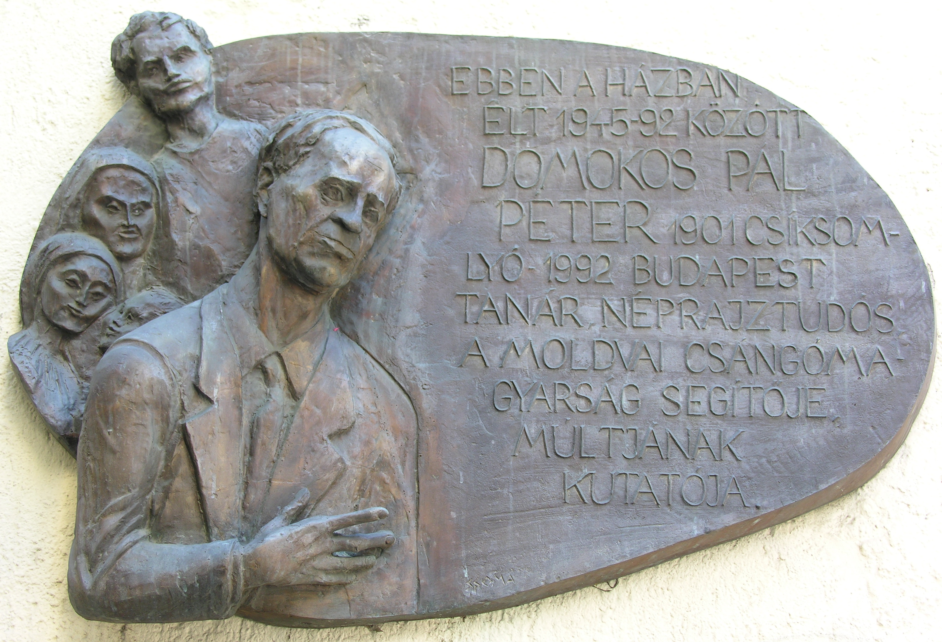 Plaque of Pál Péter Domokos, Budapest District XI, Budafoki Street No 10/c